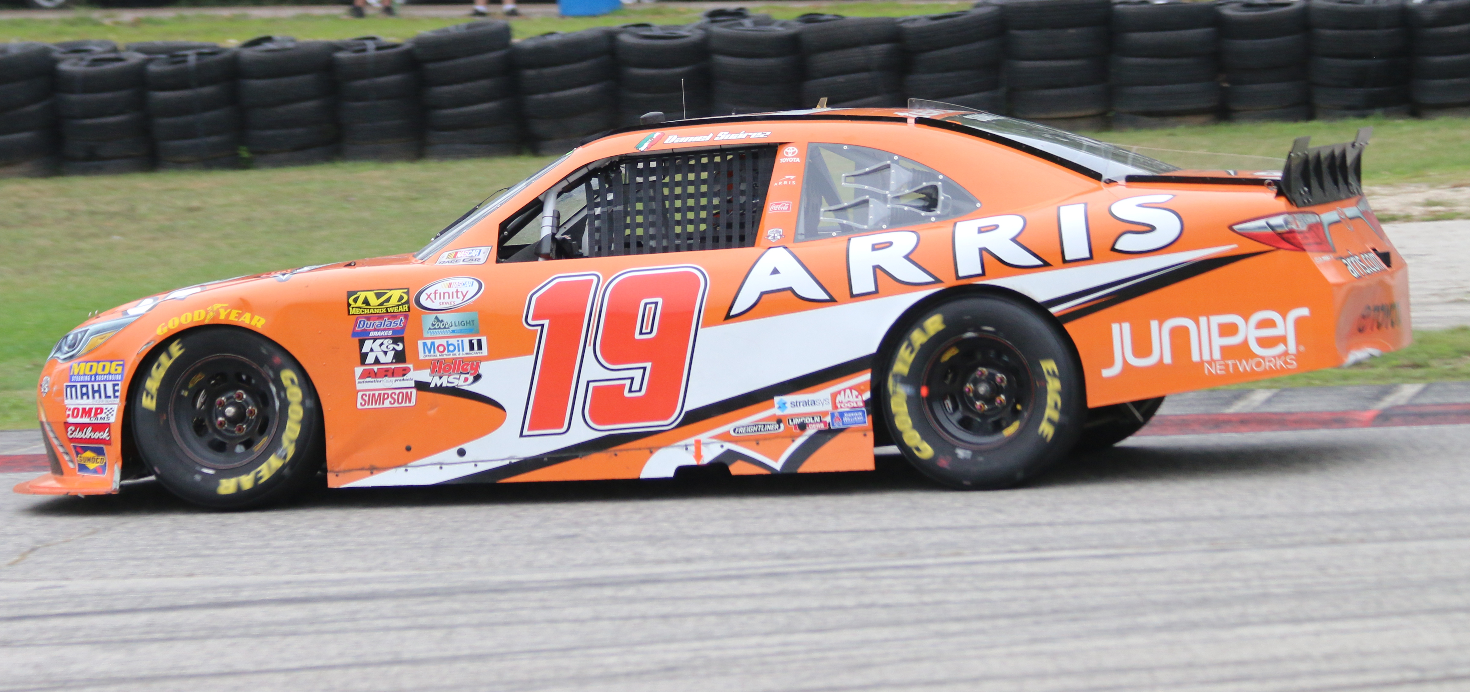 The Toyota Camry of Daniel Suárez at the NASCAR Xfinity Series Road America 180.